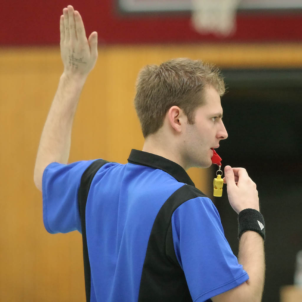 "Passive play", shown by the referee (Marco Nickel) during a handball game (HSG Bensheim/Auerbach - MTV Mundenheim), on April 2nd, 2009 in the Weststadt Hall in Bensheim (Germany).